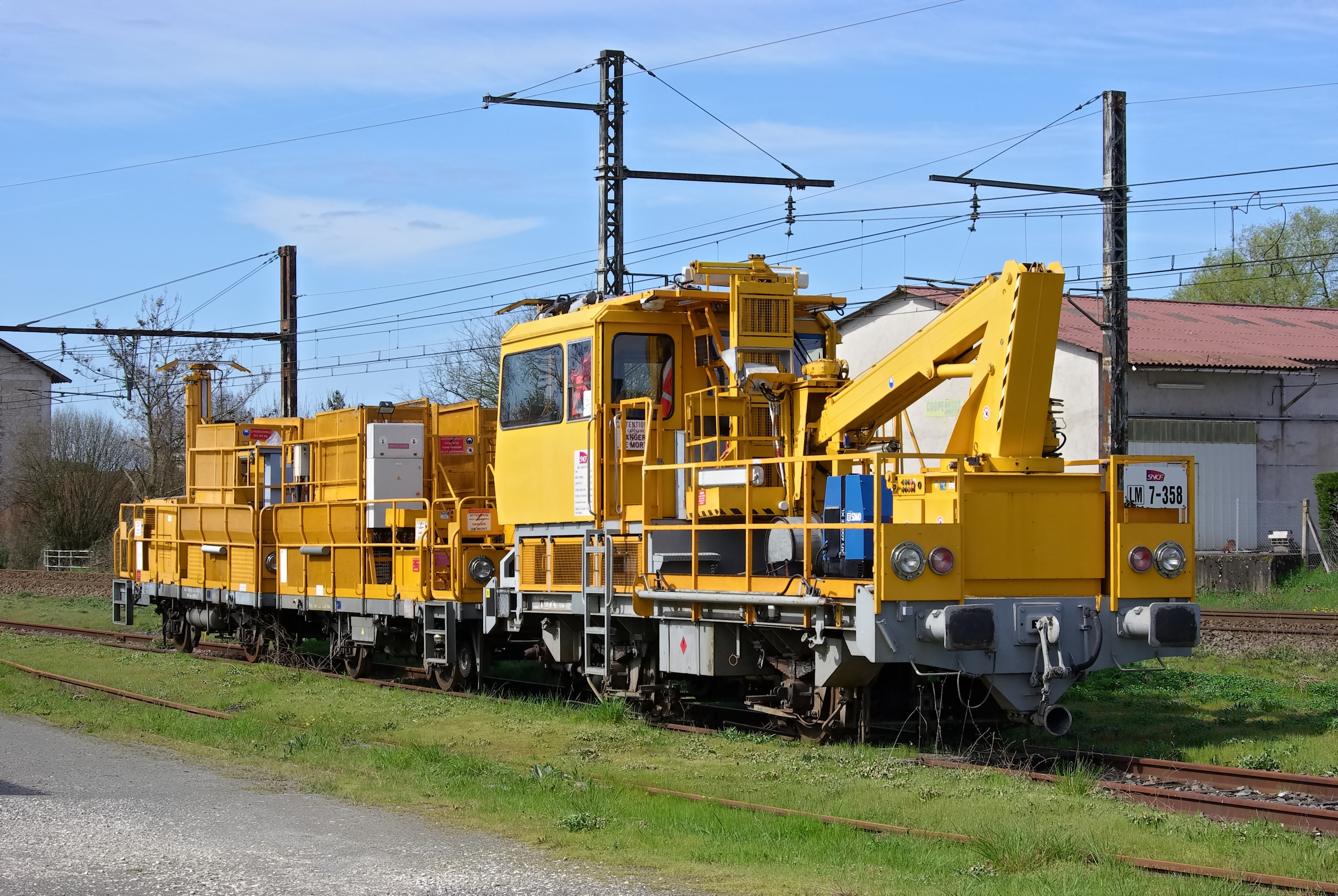 Geismar rail maintenance equipment (built in 1983) near the railway line Bordeaux-Paris, Montmoreau station, Charente, France.